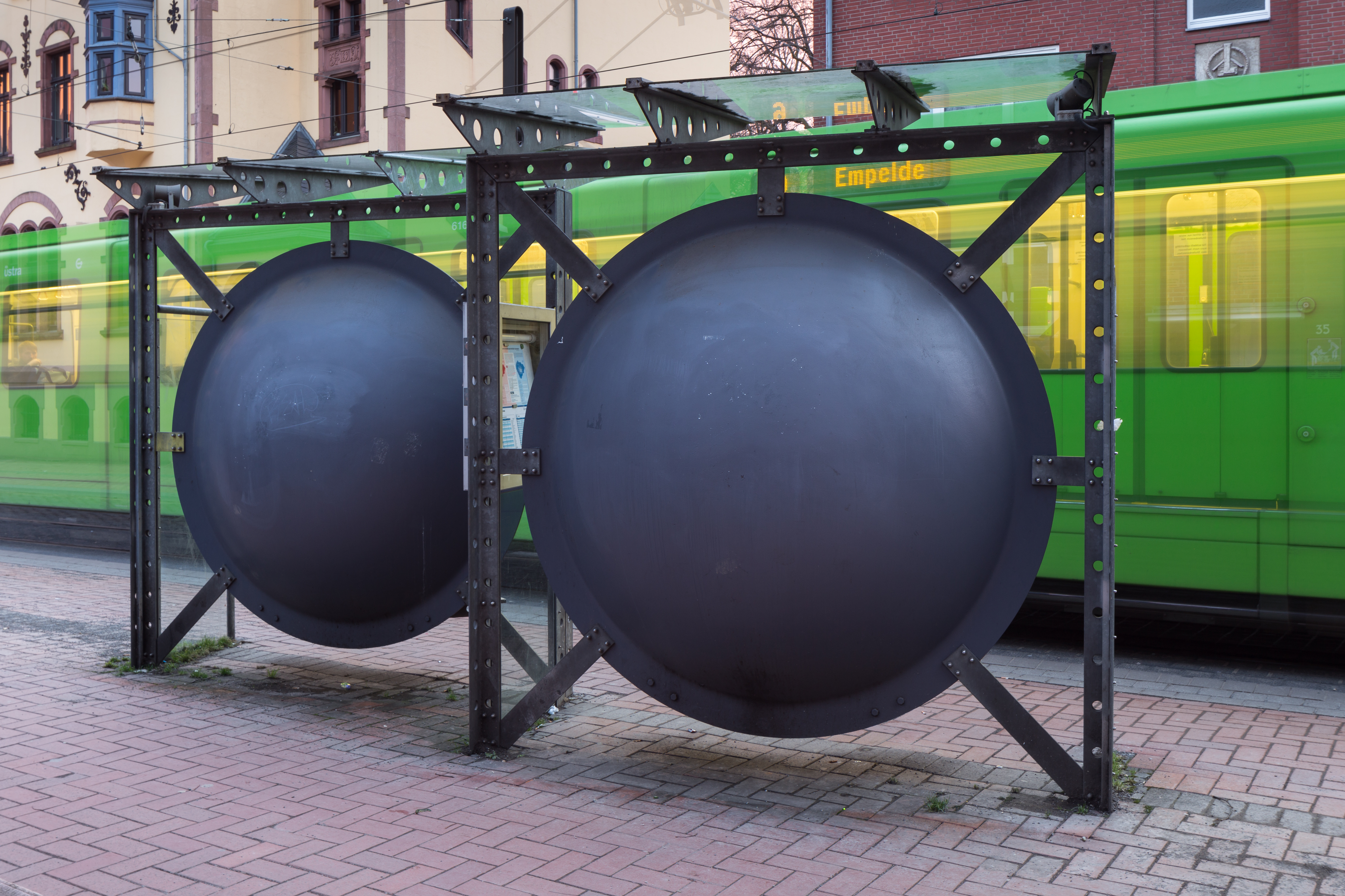 Bus and tram station Nieschlagstrasse, designed by Wolfgang Laubersheimer as part of the BUSSTOPS art project. The station is located at Davenstedter Strasse / Nieschlagstrasse in Linden-Mitte quarter of Hannover, Germany.